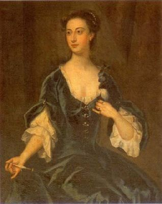 Mary née Blount Duchess of Norfolk in 1737. Holding an embroidery needle, signifying her passion for embroidery and interior decoration. She was responsible for the interior decoration of the newly built Norfolk House in St James's Square, considered "one of the wonders of London." (John Cornforth, London Interiors: From the Archives of Country Life Paperback, 2009)[1]